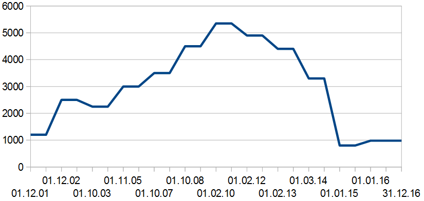 Number of german soldier on the afghanistan mission. Source/Quelle: Siegener Zeitung, 2015-12-18, page/Seite 2 Date Soldiers 01.12.01 1200 01.12.02 2500 01.10.03 2250 01.11.05 3000 01.10.07 3500 01.10.08 4500 01.02.10 5350 01.02.12 4900 01.02.13 4400 01.03.14 3300 01.01.15 800 01.01.16 980